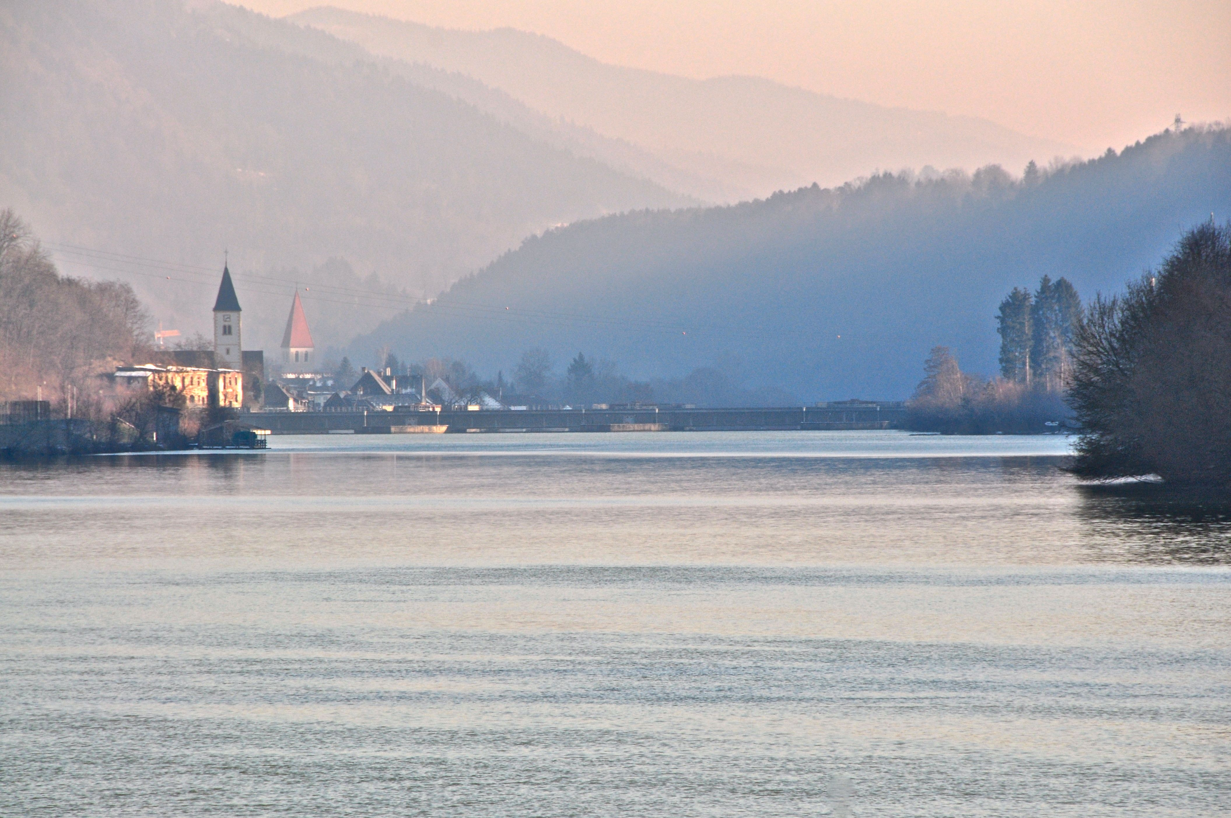 View across the Drava at Lavamuend, municipality Lavamünd, district Wolfsberg, Carinthia / Austria / EU